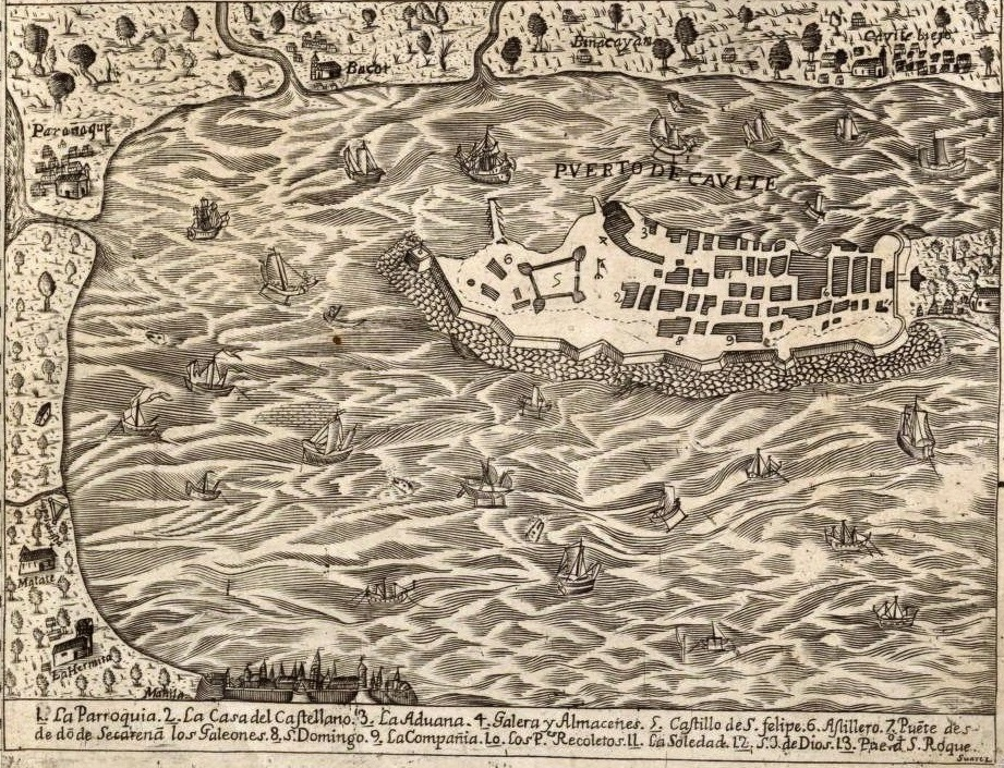 Port of Cavite, detail from Carta Hydrographica y Chorographica de las Yslas Filipinas (1734). La Parroquia - the Parish church (St. Peter) La Casa del Castellano - Fort commander's house La Aduana - Customs house Galera y almacenes - galleys and warehouses Castillo de San Felipe - Fort of St. Phillip Astillero - shipyard Puente desde donde secarena los galeones - drydock for galleons? S. Domingo - Church of St. Dominic La Compañia - Jesuit school/Church (Our Lady or Loreto) Los P.es Recoletos - Recollect Church of St. Monica La Soledad - Church of our Lady of Solitude (Porta Vaga) S. J. de Dios - St. John of God Church S. Roque - St. Roch parish